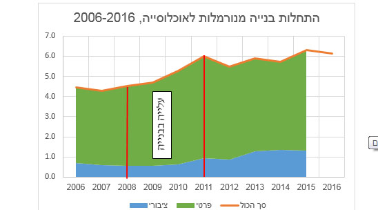 Normalized housing starts for the population